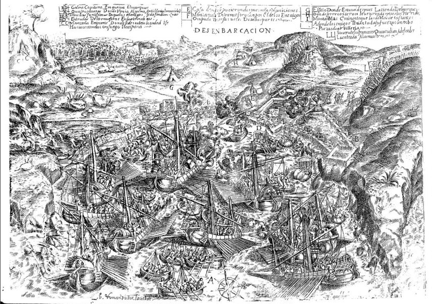 Spanish forces landing at Baía das Mós, Terceira, Azores, July 24th, 1583.